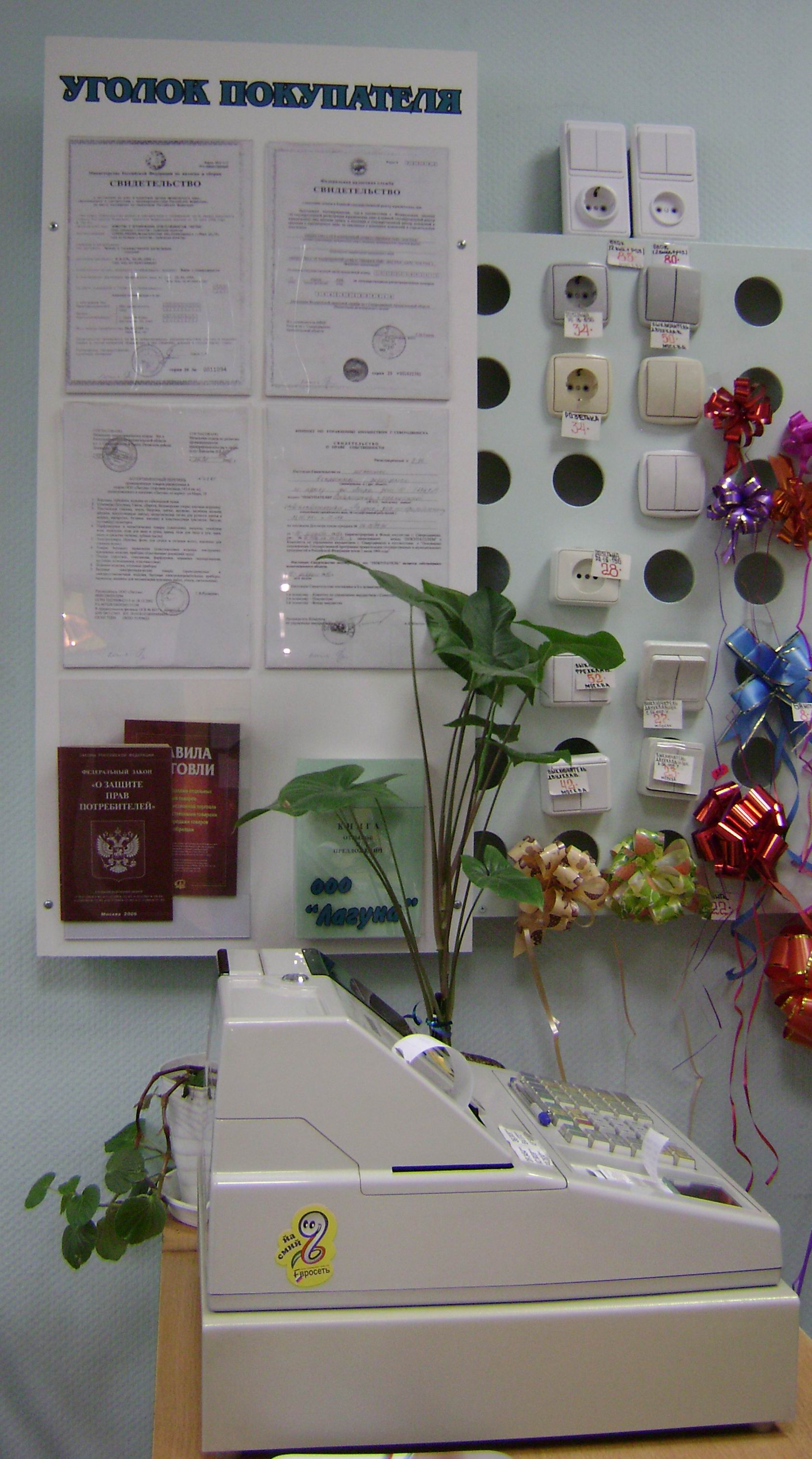 Shop (RF)